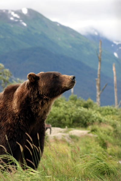 Grizzly Bear Anchorage Alaska